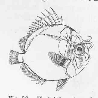 Tholichthys-stage of Heniochus Subject: Chaetodontidae Tag: Fish